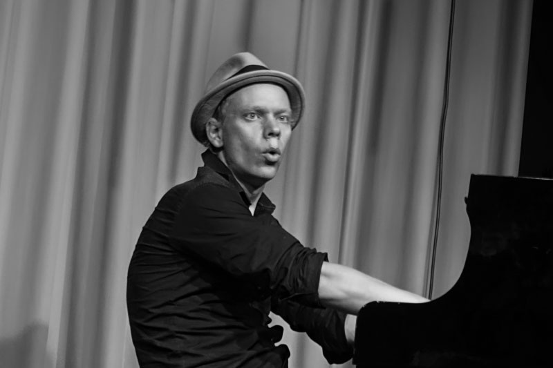 Simon Toldam in Aarhus, Denmark 2017